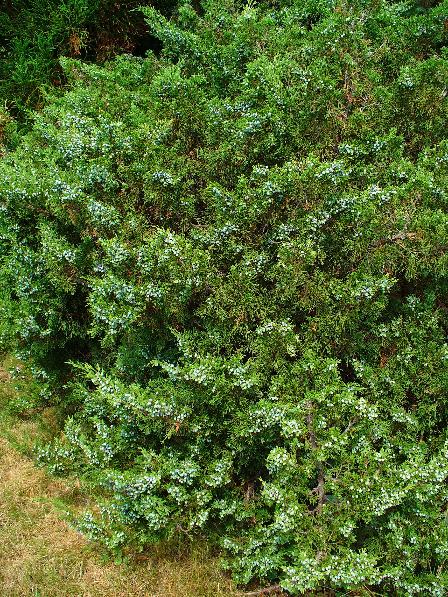 Juniperus sabina, Cupressaceae, Savin Juniper, habitus; Botanical Garden KIT, Karlsruhe, Germany. The fresh, youngest and not woodened branchsprouts with the leaves are used in homeopathy as remedy: Sabina (Sabin.)